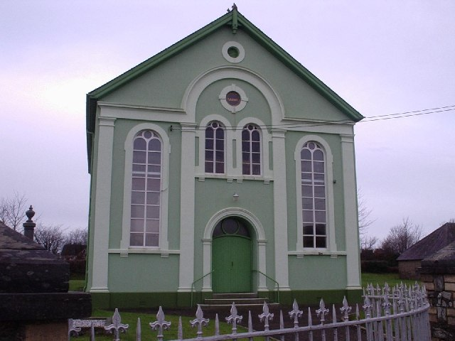 Saron, Llangeler.